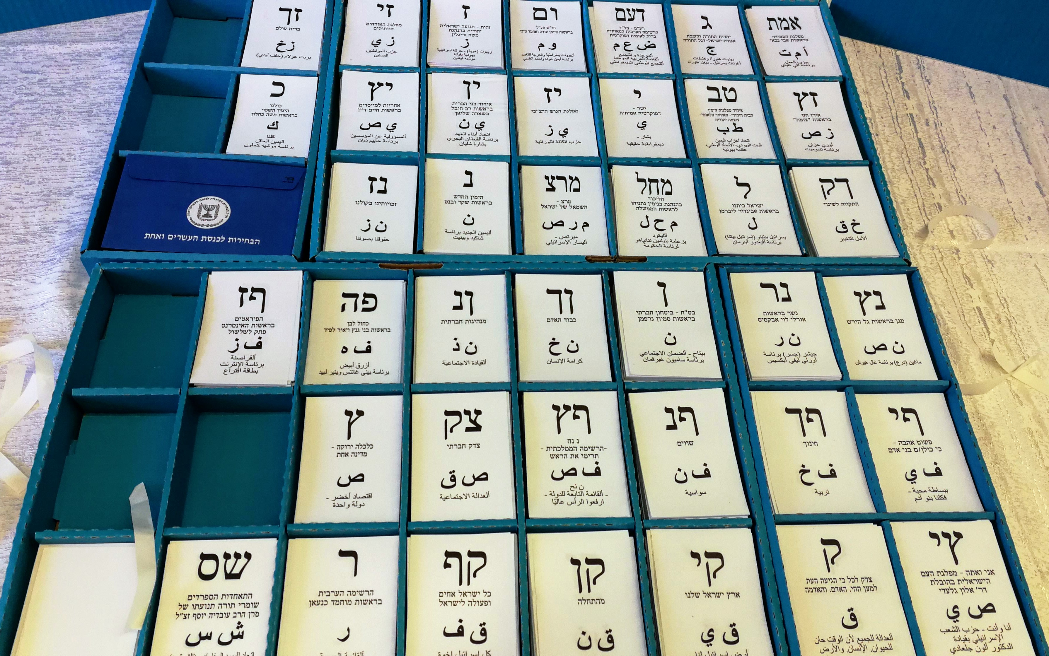 Ballots papers of Israeli legislative election, 2019